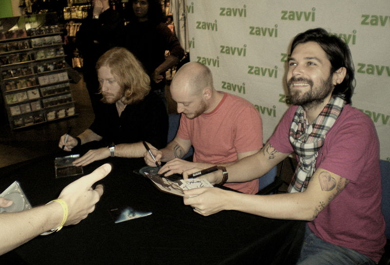 Biffy Clyro at a signing in Glasgow, for their latest single "Mountains"